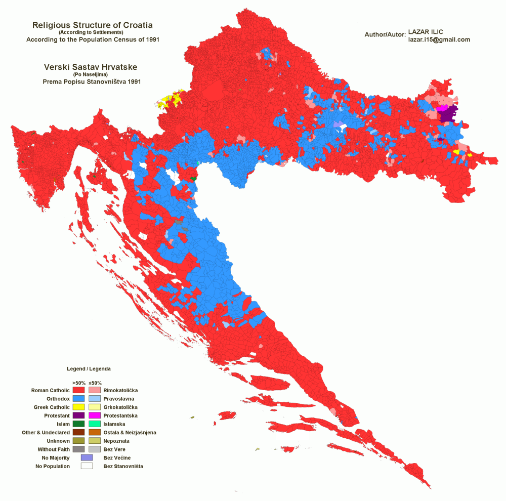 This is a map of Croatia showing the biggest religious group in each settlement according to the 1991 population census.